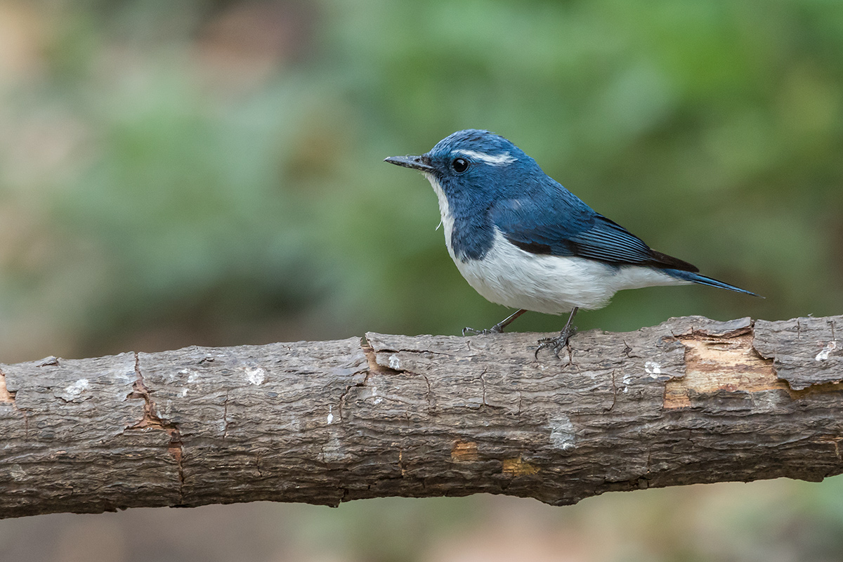 Taken from Sattal Uttarakhand